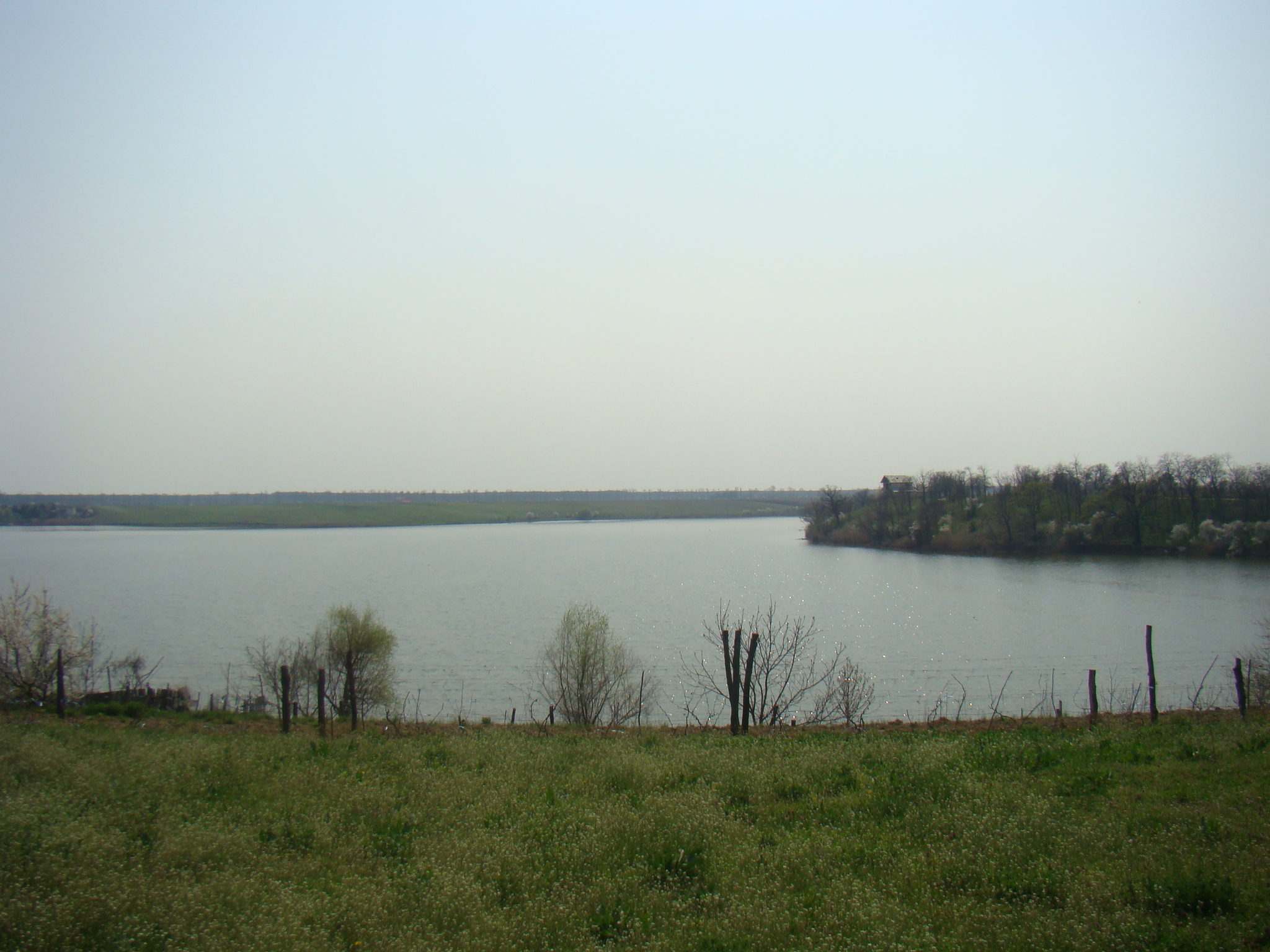 Caldarusani Lake